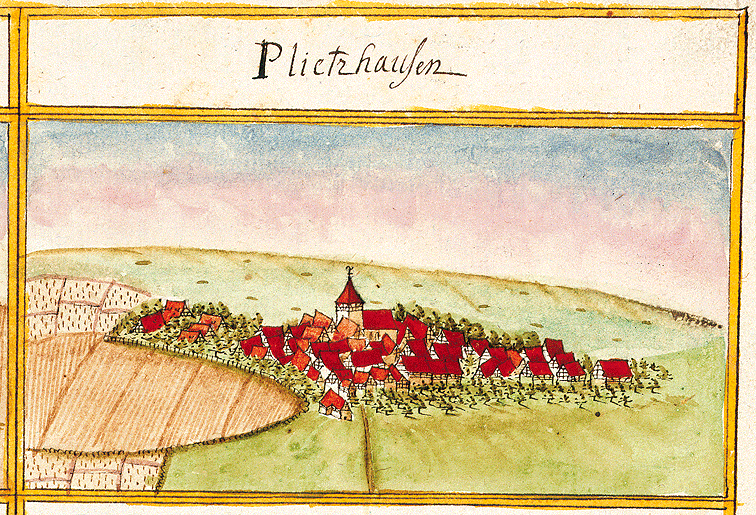 View of Pliezhausen from the forest register books created by Andreas Kieser